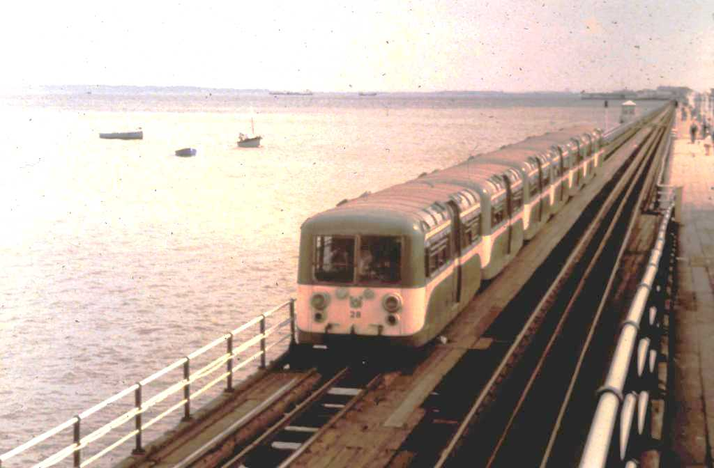 Southend Pier Train in October 1975, 1949 Stock built by AC Cars of Thames Ditton, Surrey